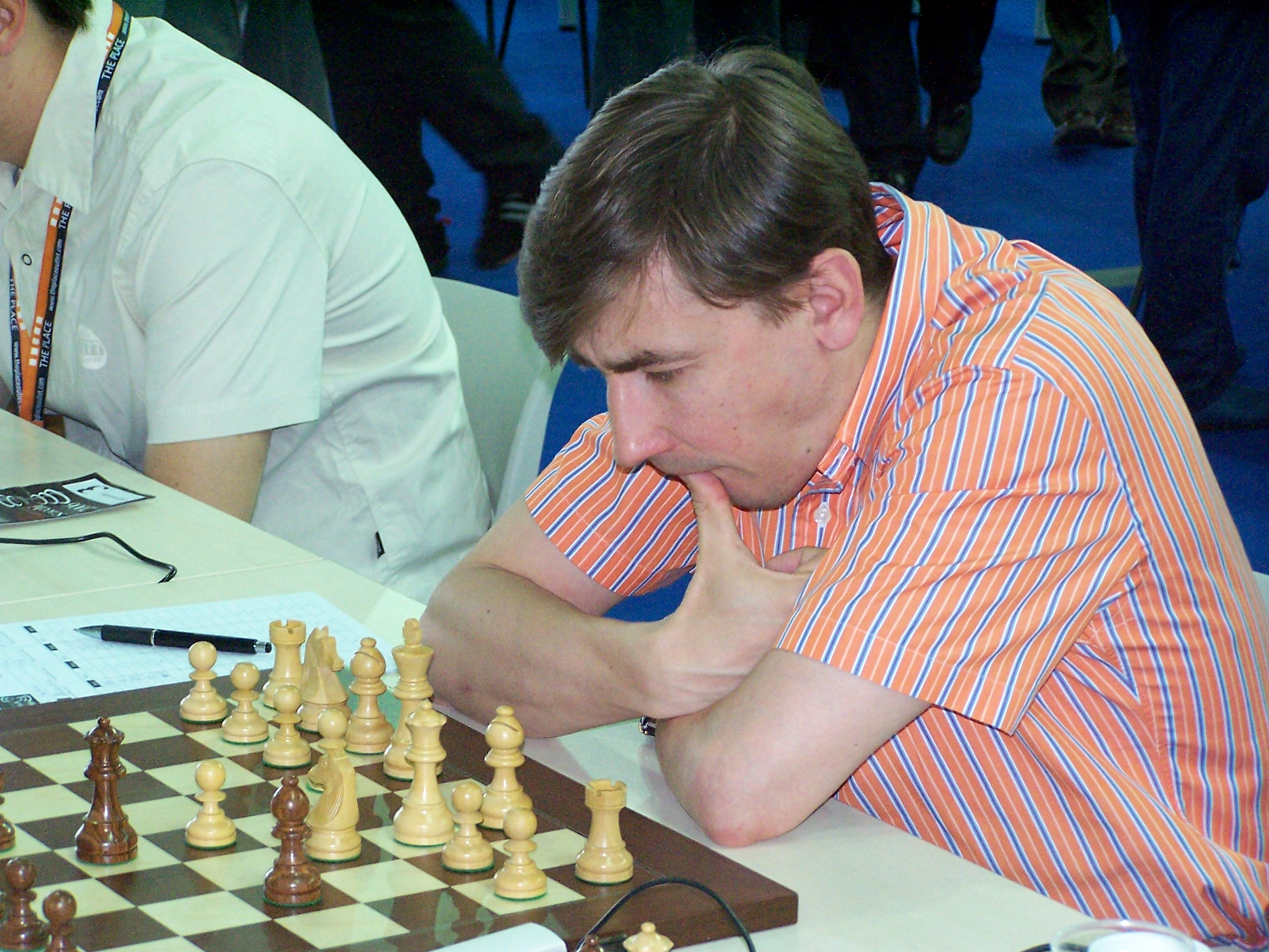 Bareev foto olimpiadi scacchi torino 2006